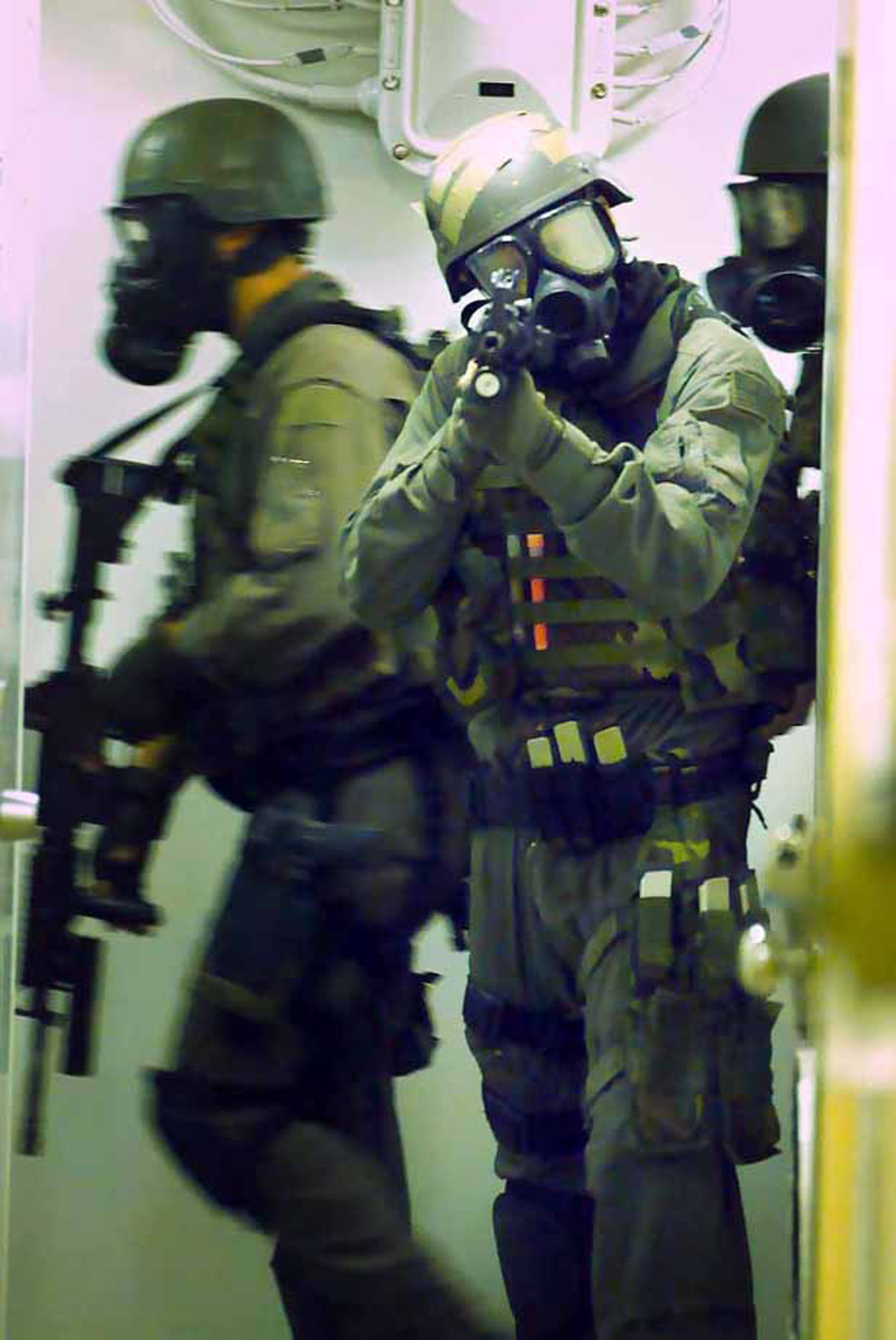 Marines of the 31st Marine Expeditionary Unit (MEU) maintain security of a passageway, as other members of the platoon continue searching the ship during close quarter battle training aboard ship.